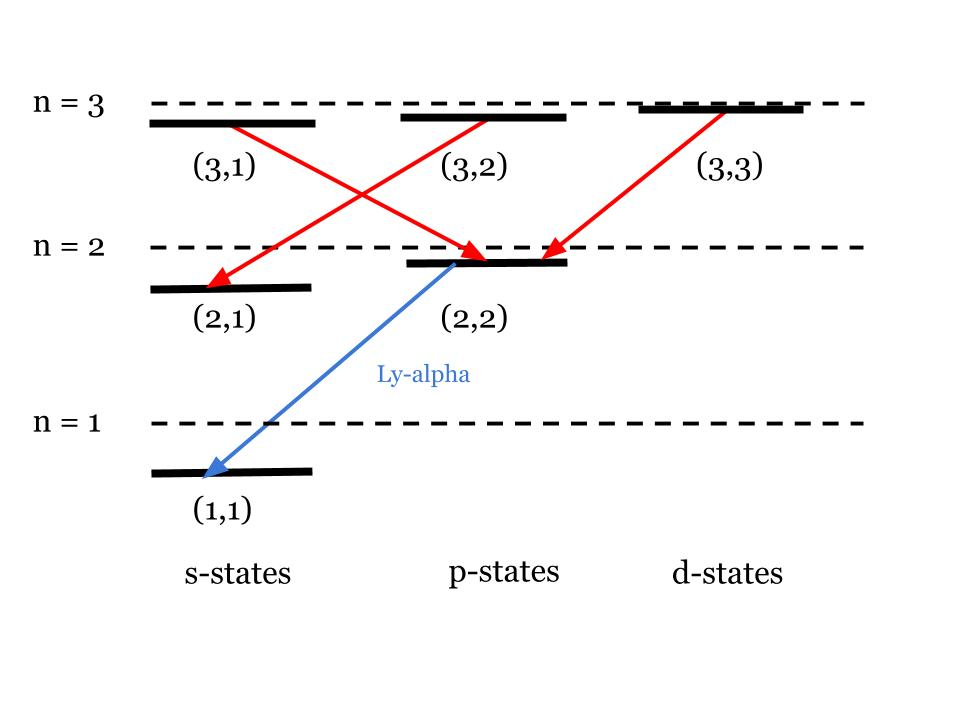 Lowest energy levels in hydrogen atom with allowed transitions